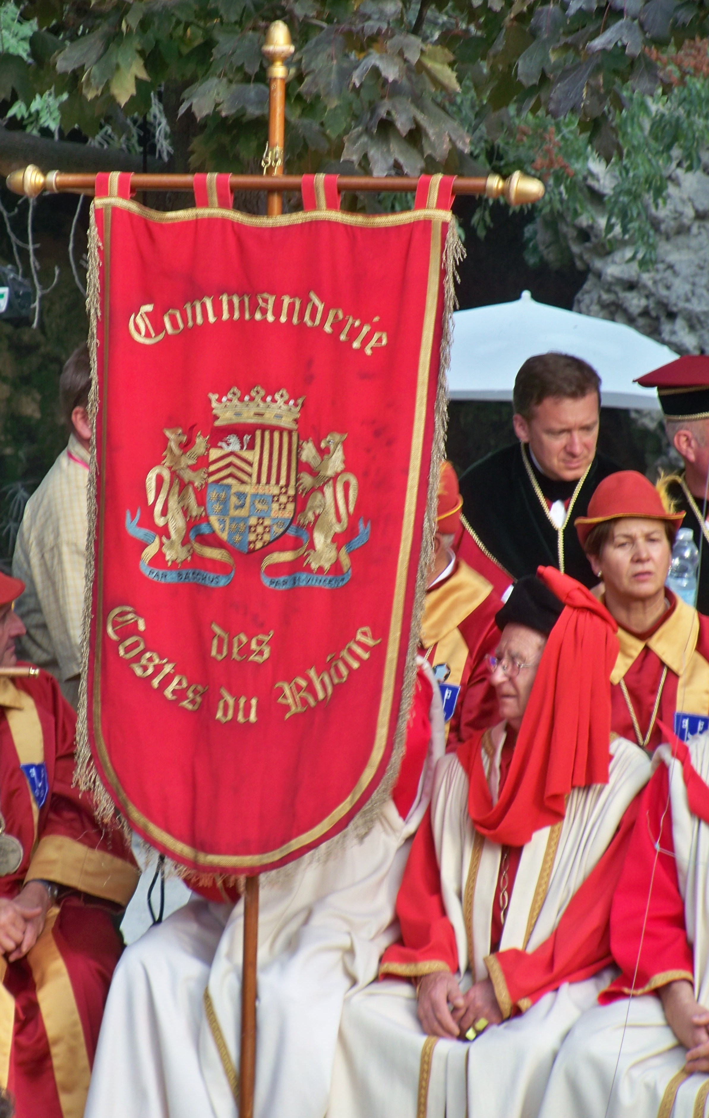 Banner of Commanderie of the Coasts of the Rhone